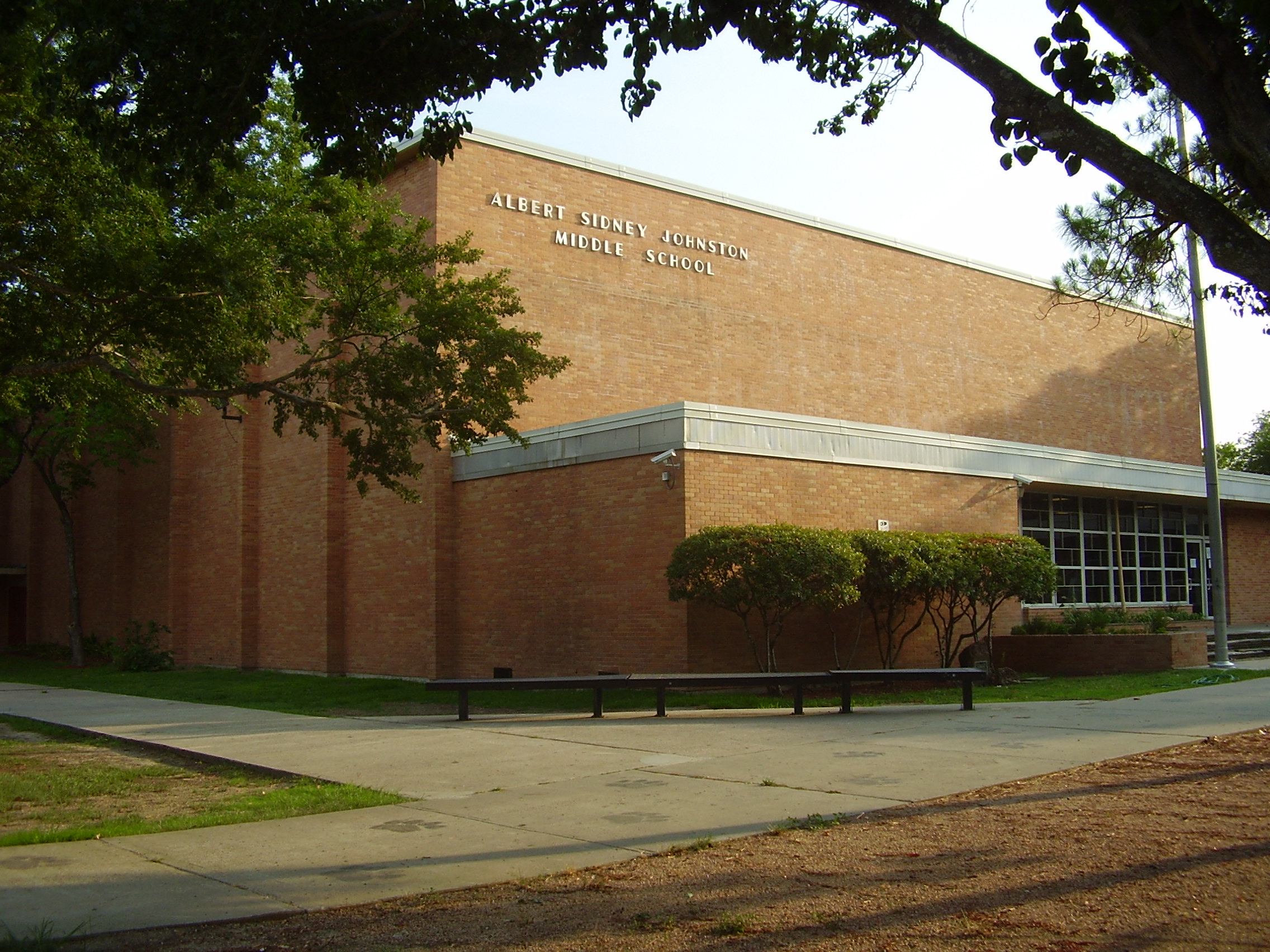 Albert Sidney Johnston Middle School